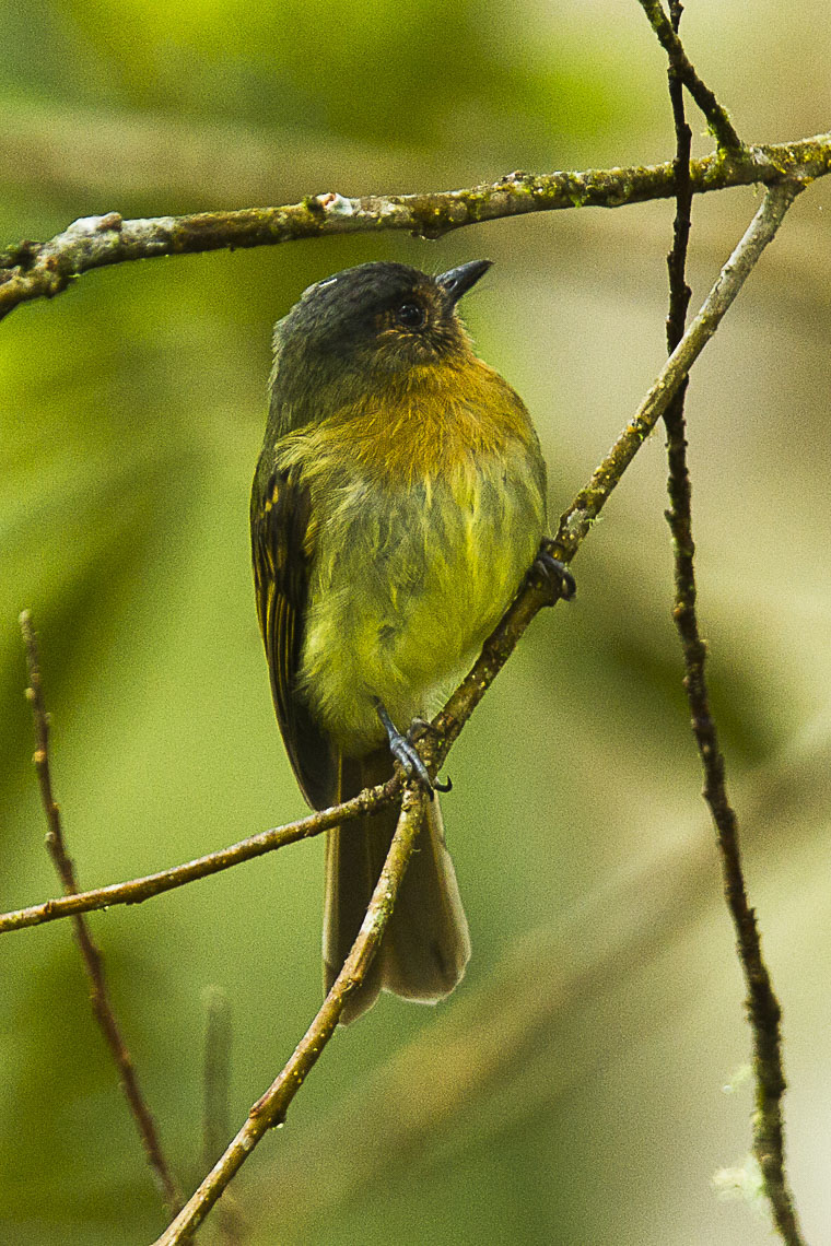 Rufous-breasted flycatcher (Leptopogon rufipectus) - Ecuador_S4E4101